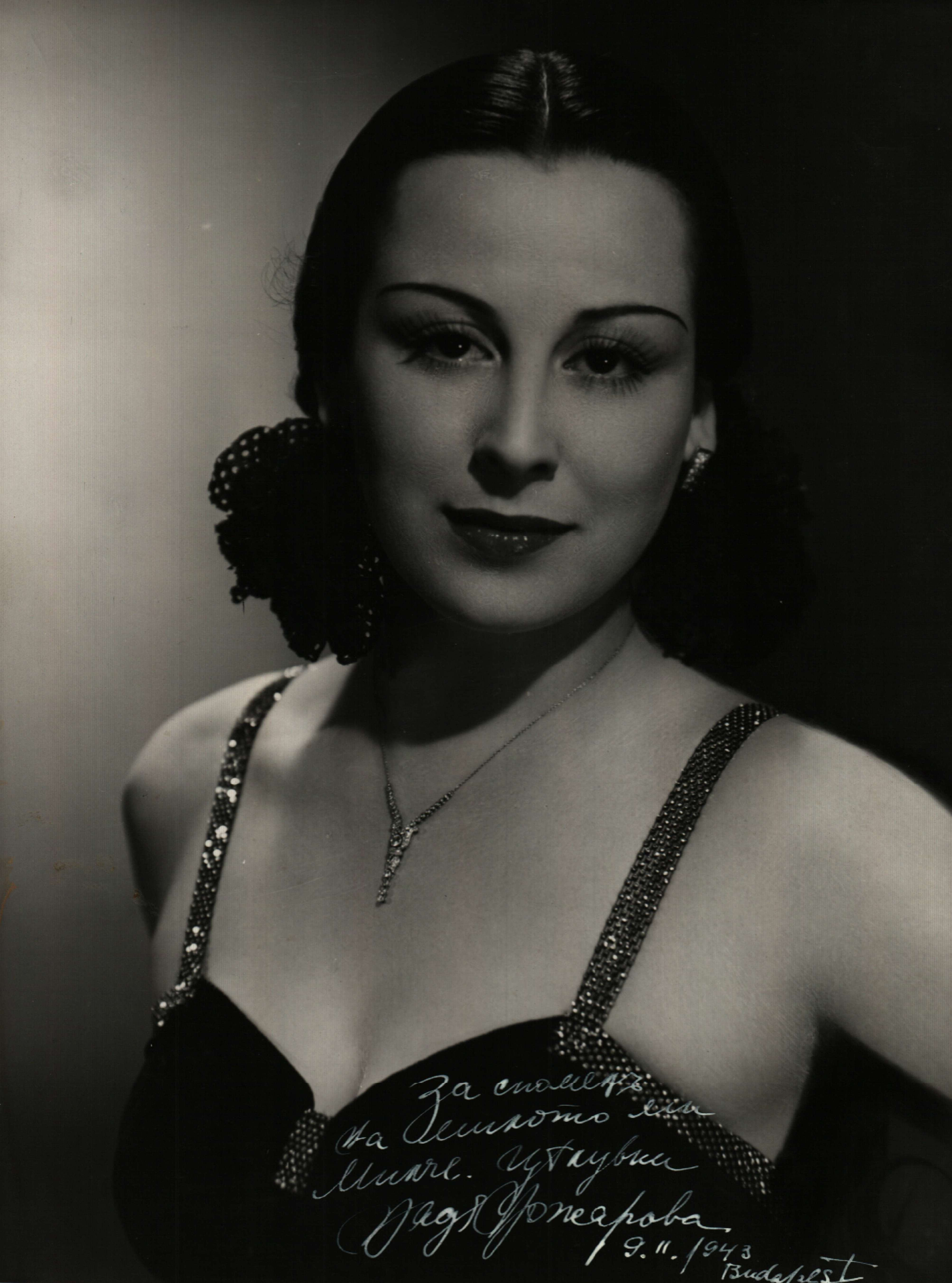 Bulgarian actress Nadya Nozharova, Countess Nadia de Navarro-Farber (1916-2014)